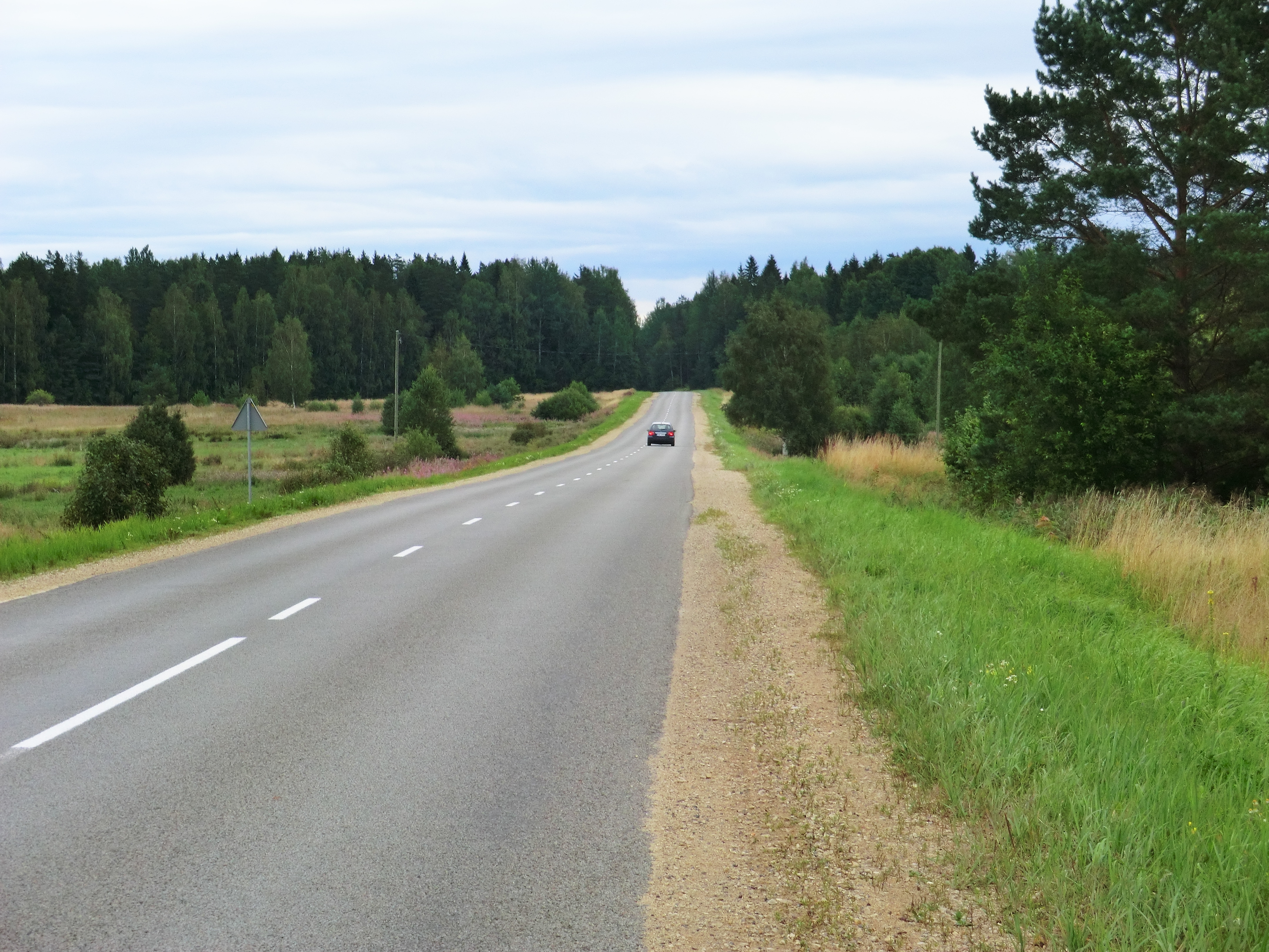 Road P35 near LiteneLatviešu: Autoceļš P35 pie Litenes